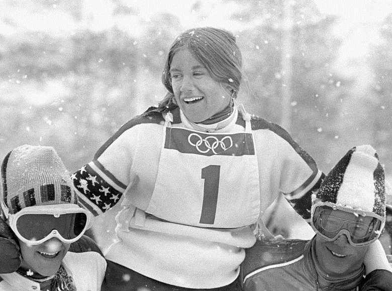 LG25 1972 Wire Photo BARBARA COCHRAN BOB RICK CHAFFEE Olympic Slalom Gold Winner